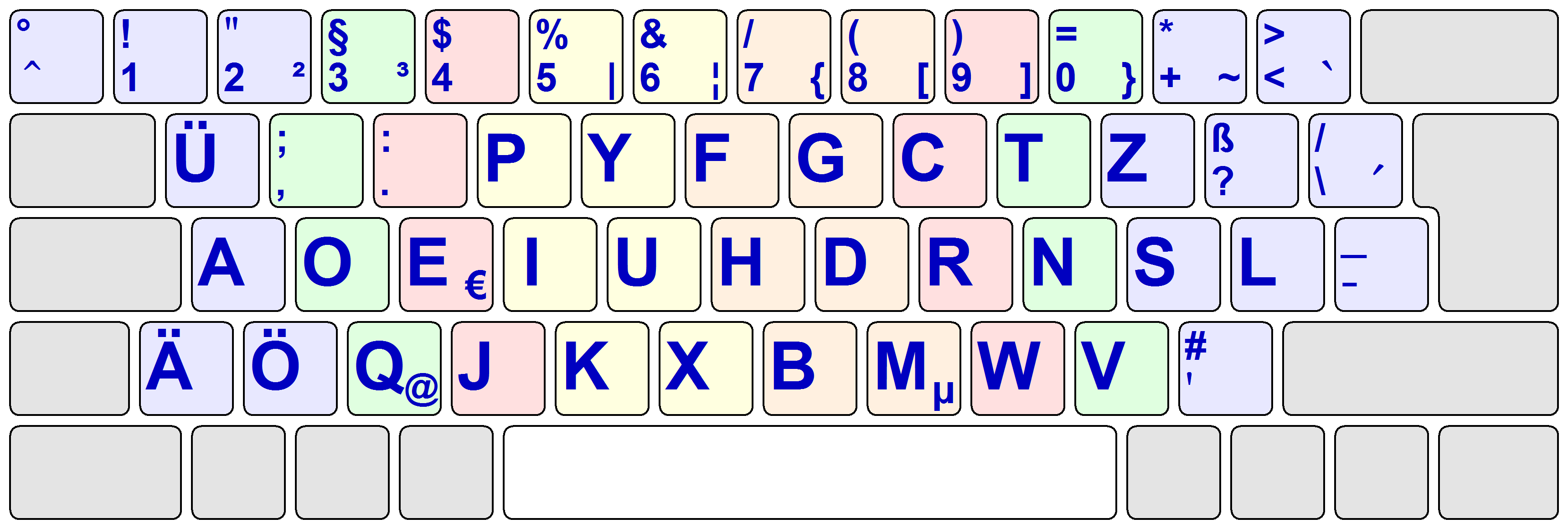 German variant of the Dvorak keyboard layout